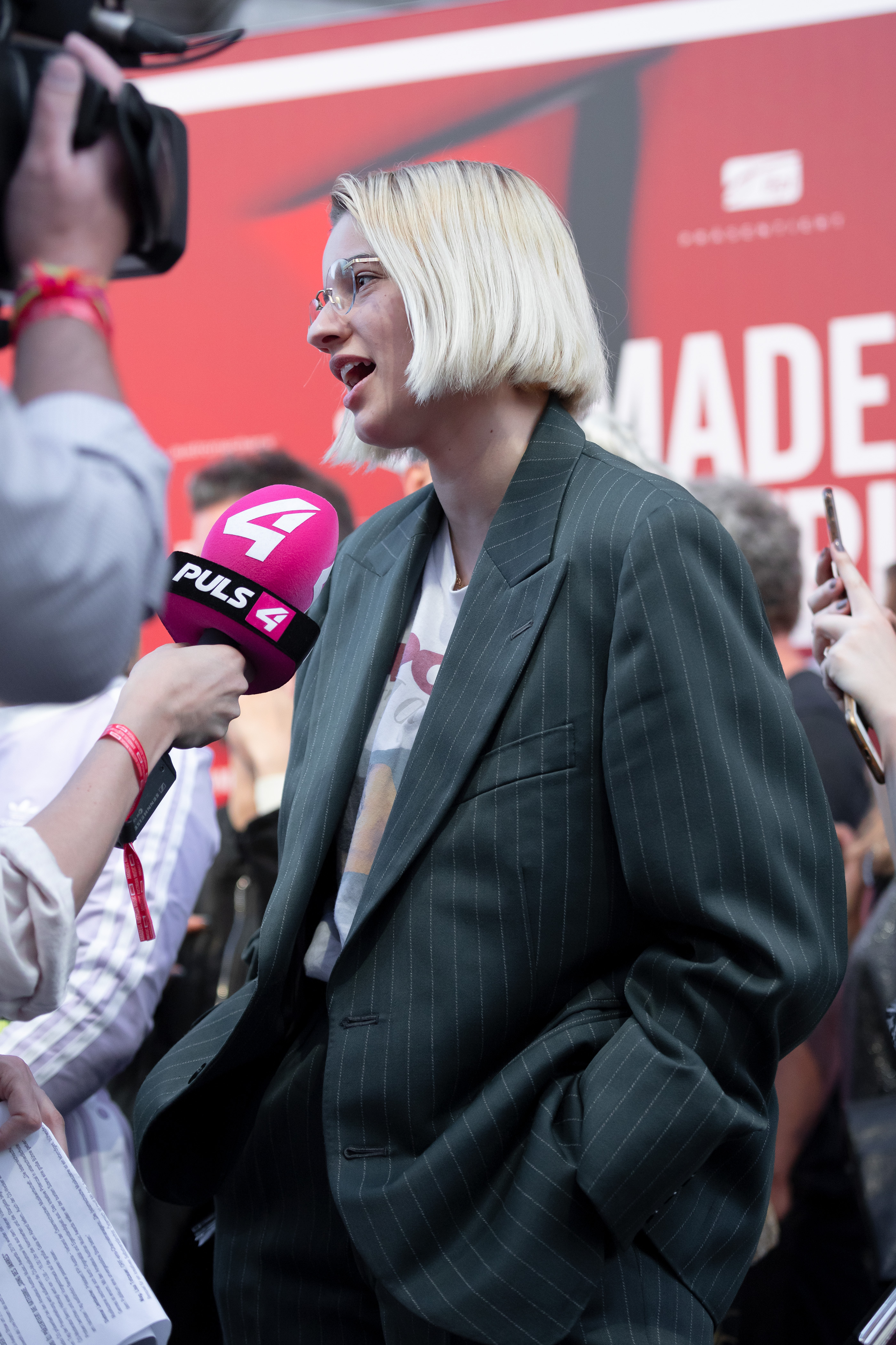 Mavi Phoenix at the Amadeus Austrian Music Award 2019 at Volkstheater in Vienna.